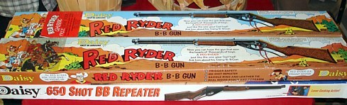 Two Red Ryder BB Guns in box. These are a relatively recent issue. The boxes promote the gun as being "just like the one your Dad had!" Photographed at a toy show, March 4, 2006.